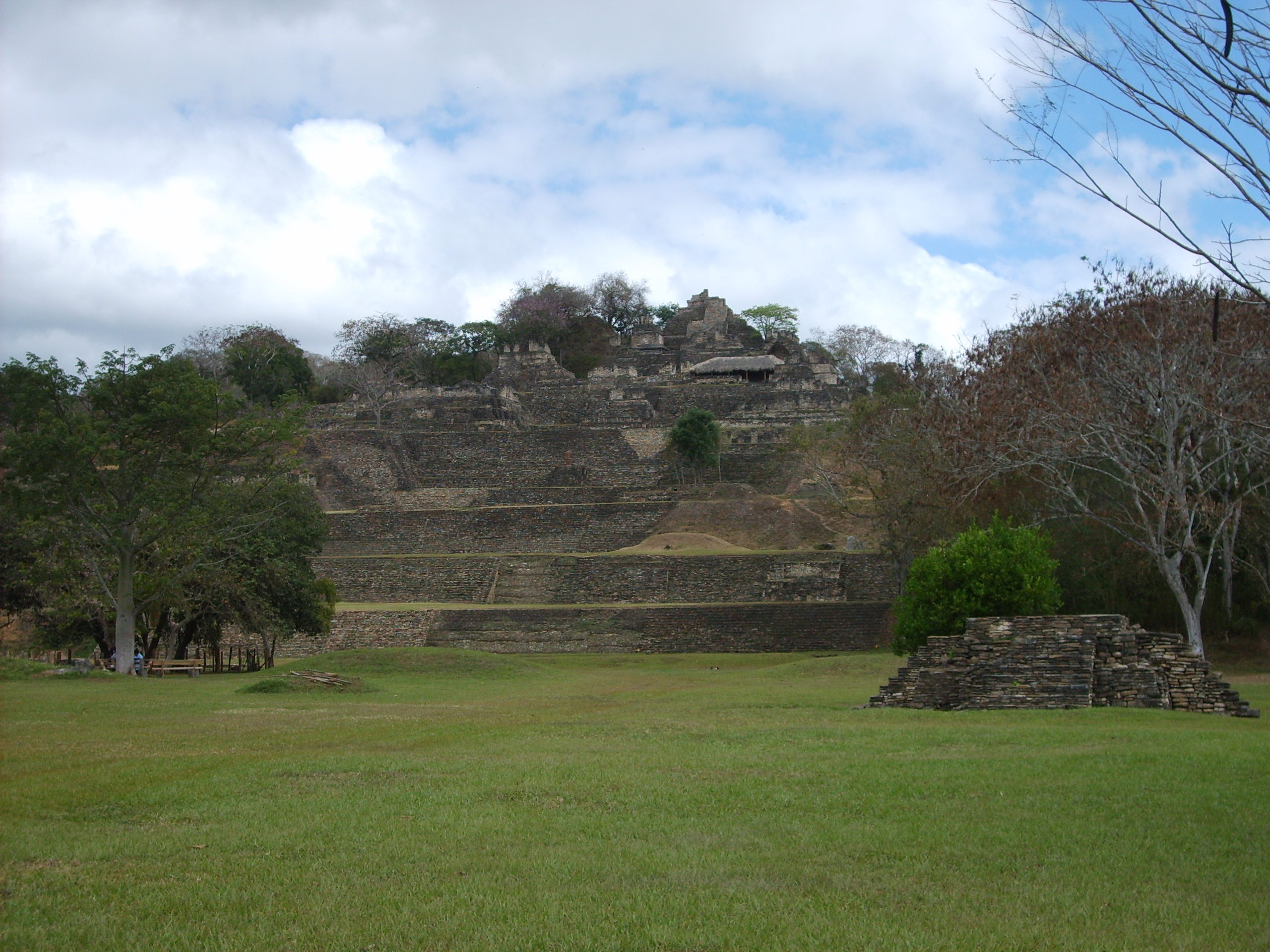 General view of Toniná.